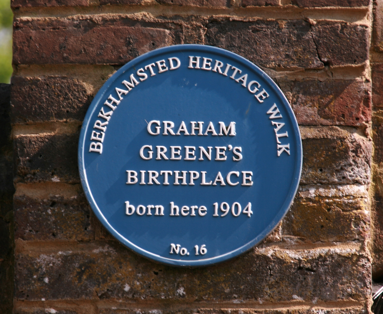 Blue plaque outside Graham Greene's Birthplace, St. John’s boarding house (part of Berkhamsted School) on Chesham Road in Berkhamsted, Hertfordshire in the United Kingdom. The writer Graham Greene was born here in 1904 when his father was housemaster.